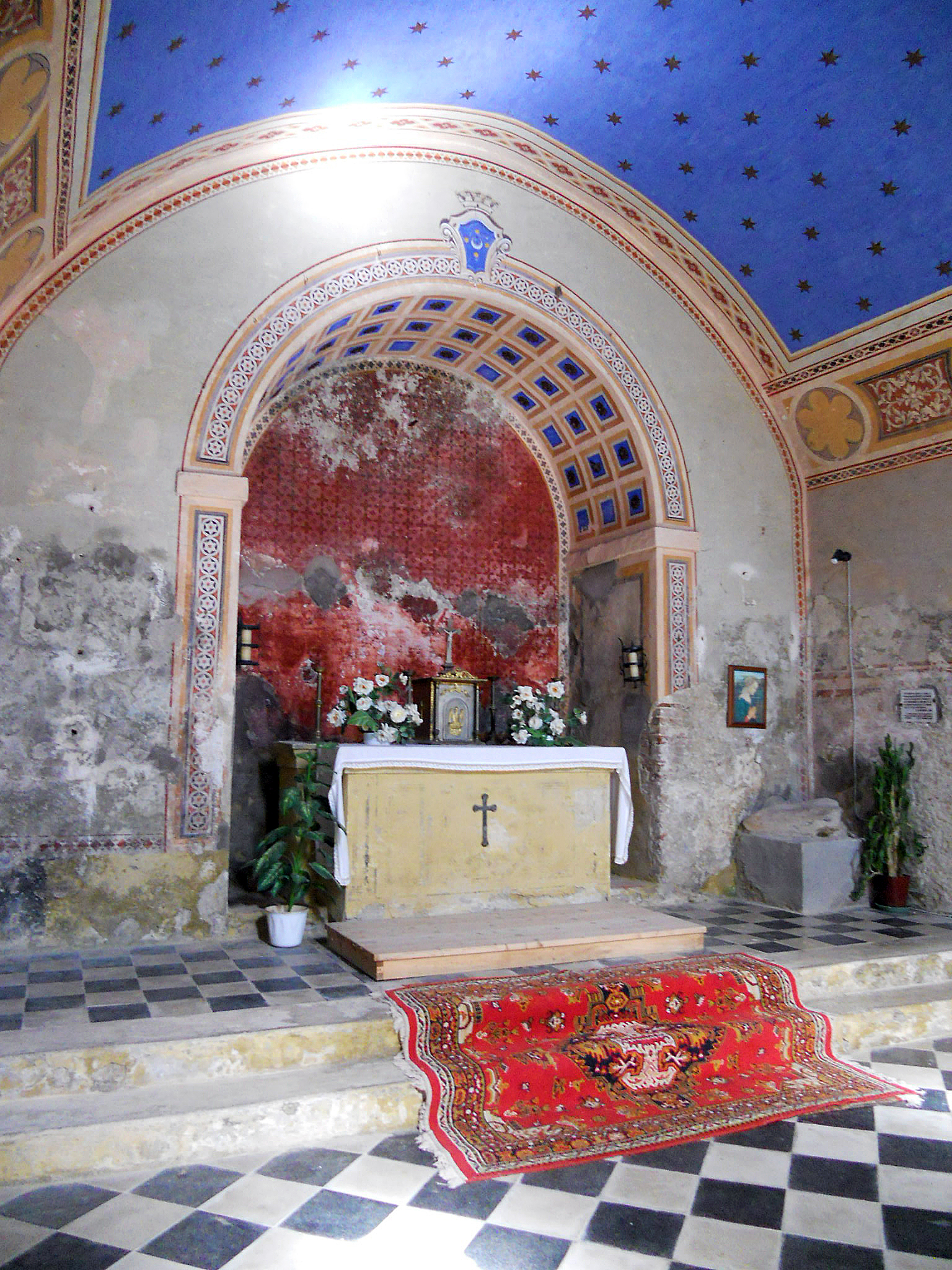 Birthplace of Saint Galgano, Chiusdino (province of Siena, Italy).